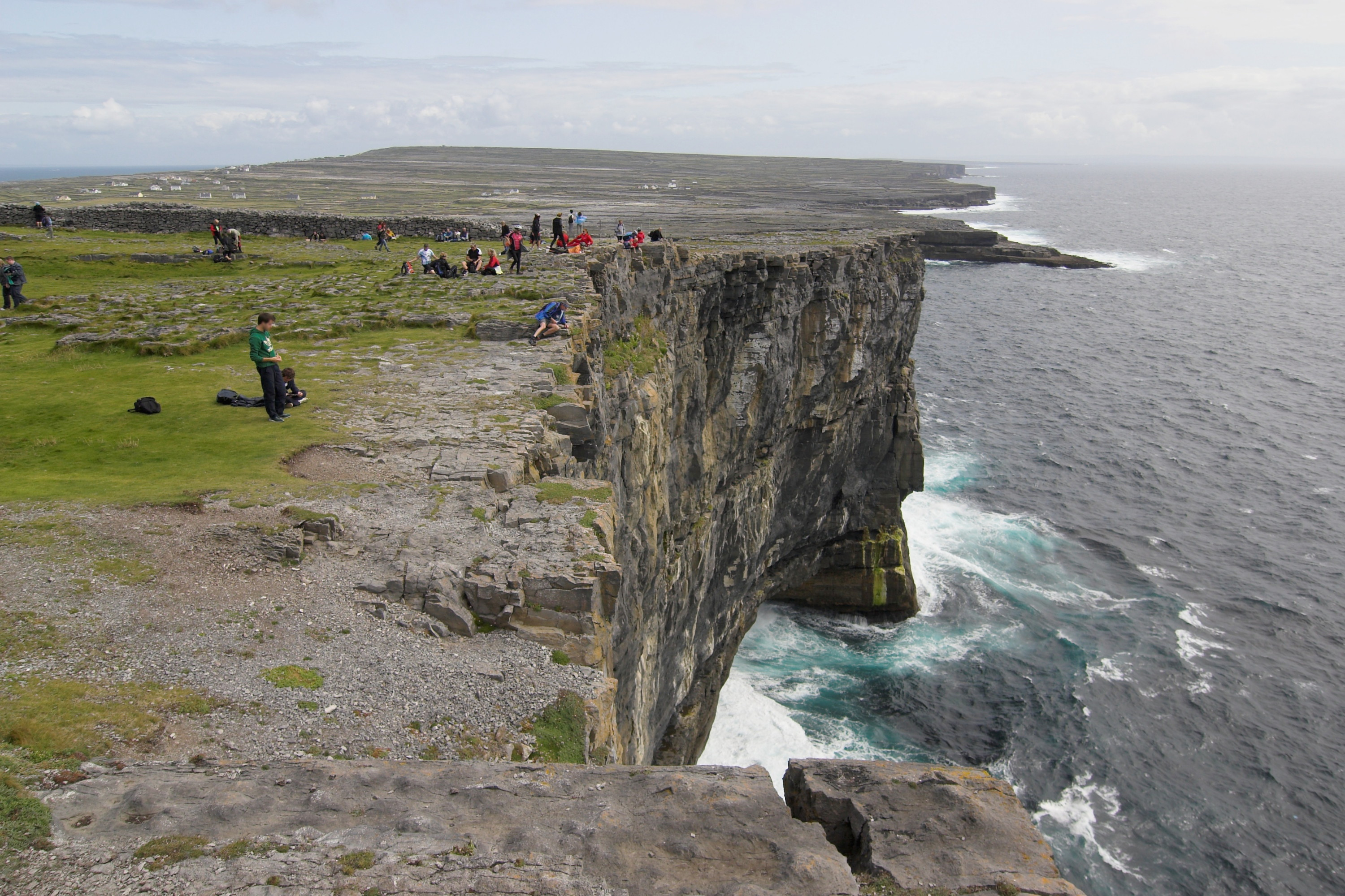 The cliffs at Dún Aengus